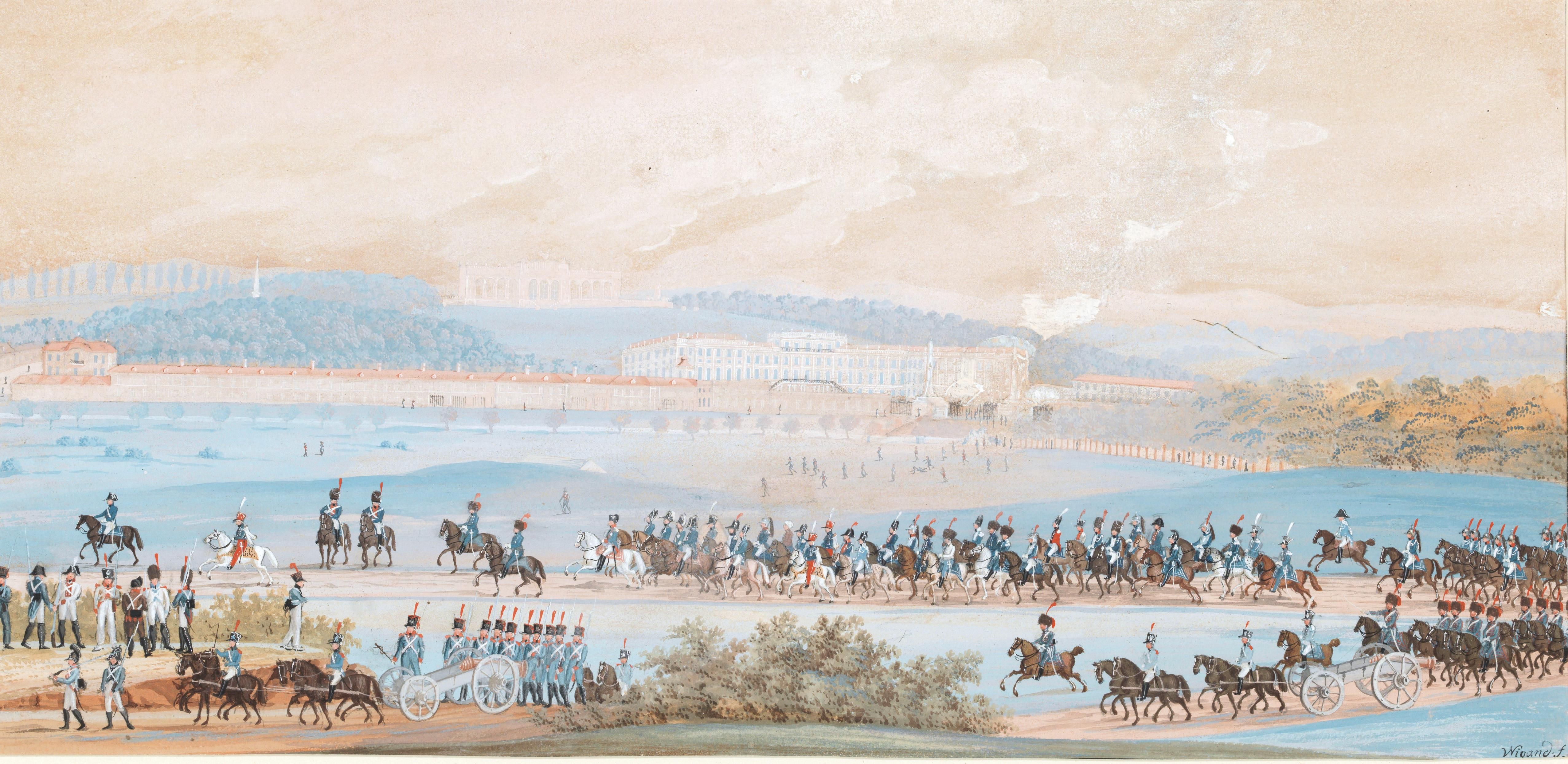 The entry of Napoleon in Schönbrunn. Gouache on paper, 15 x 30,5 cm